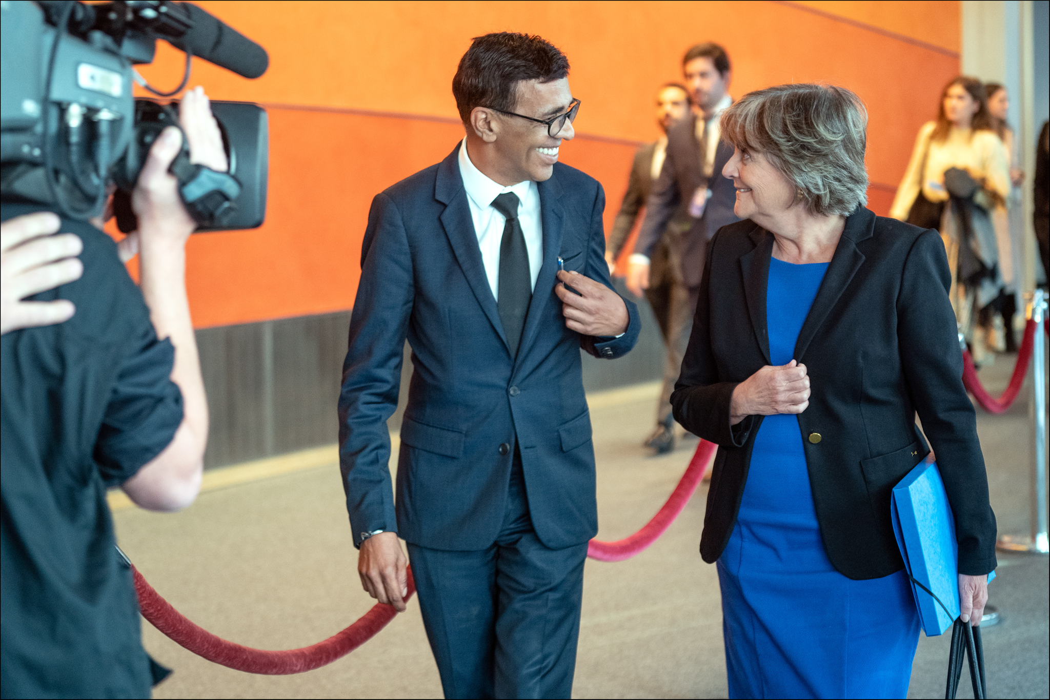 Before the European Parliament can vote the new European Commission led by Ursula von der Leyen into office, parliamentary committees will assess the suitability of commissioners-designate. On 23-26 May, more than 200,000,000 people in 28 EU countries went to the polls to elect members of the European Parliament, giving them a strong democratic mandate, including voting into office the new European Commission and examining the competencies and abilities of its commissioners-designate. Elected members of the European Parliament will also listen to their ideas and will assess their willingness to take concrete actions on the issues that Europeans care about. Each candidate commissioner is invited for a live-streamed, three-hour hearing in front of the committee or committees responsible for their proposed portfolio. The hearings will take place between Monday 30 September and Tuesday 8 October. This photo is free to use under Creative Commons license CC-BY-4.0 and must be credited: "CC-BY-4.0: © European Union 2019 – Source: EP". No model release form if applicable. For bigger HR files please contact: webcom-flickr(AT)